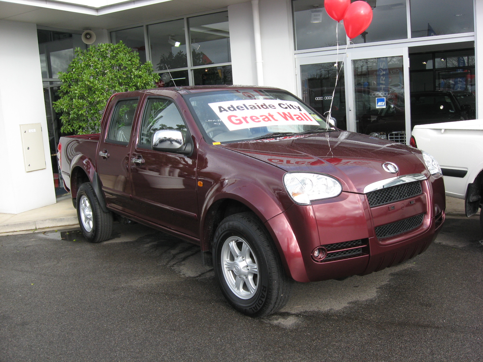 Great Wall Motors Australian spec V240 known as Wingle or Steed.